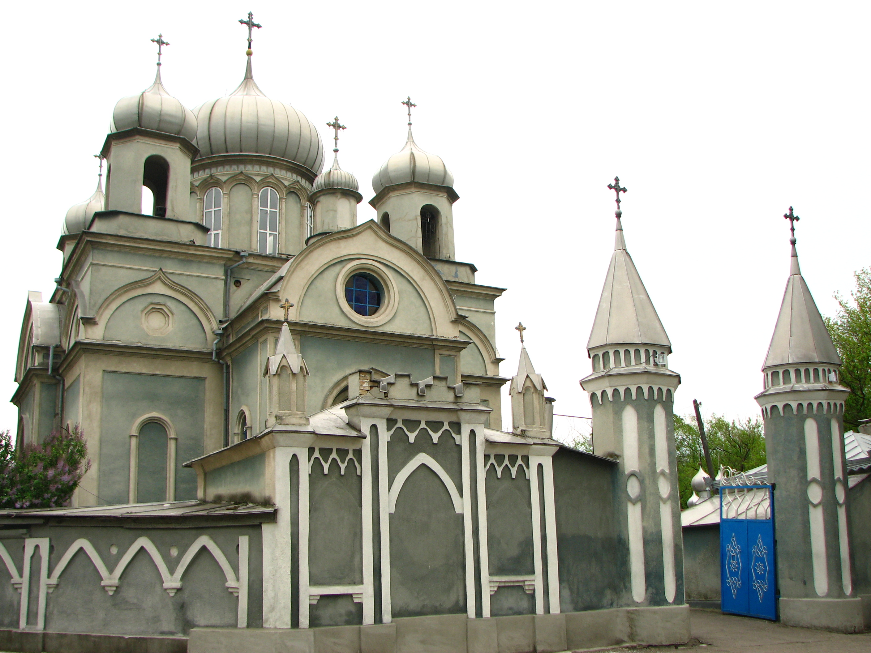 Ascension Cathedral in Oleksandrivsk, Ukraine